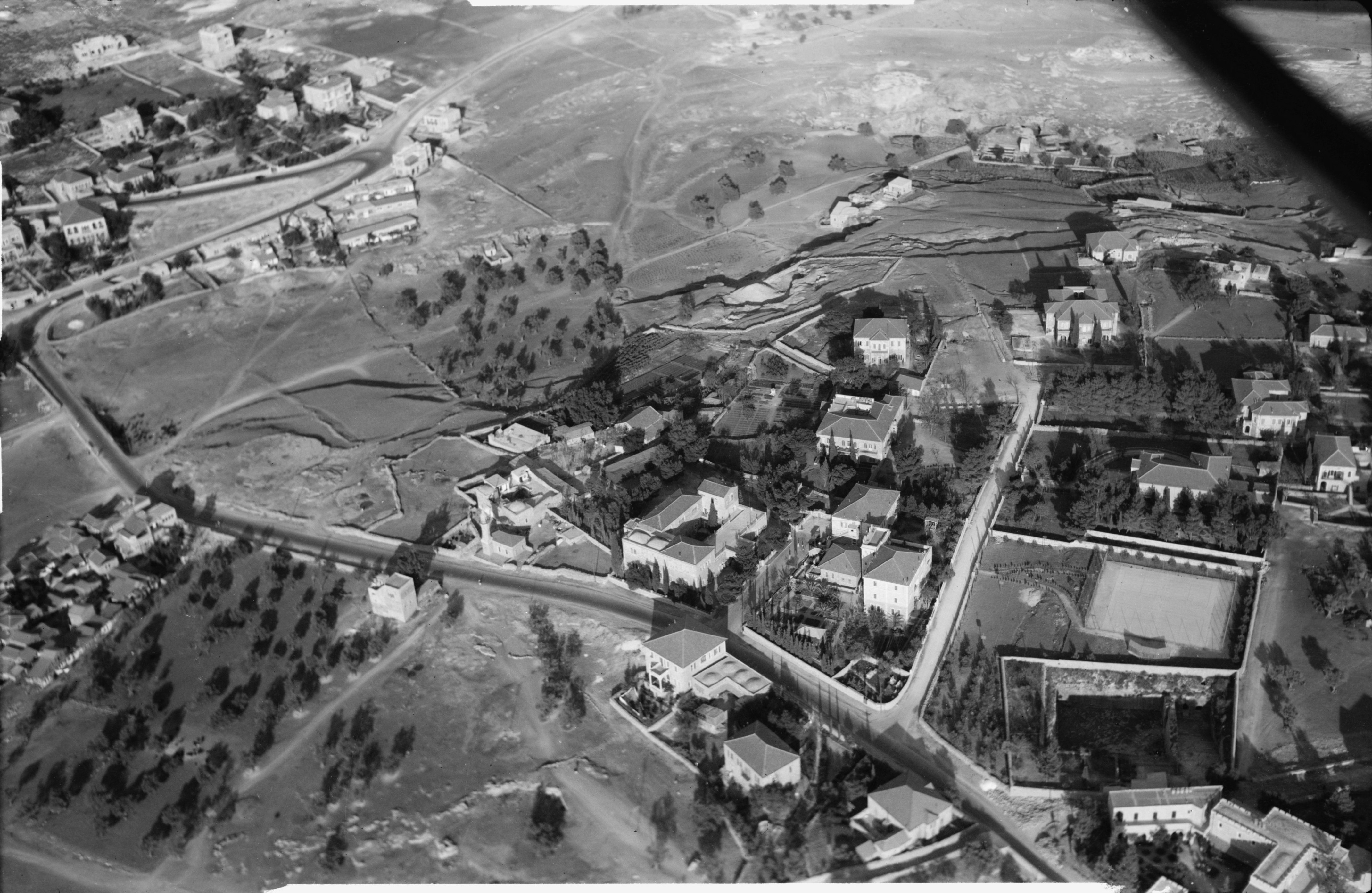 Title: Air views of Palestine. Jerusalem from the air. Newer Jerusalem. The American Colony. In Sheikh Jerrah Quarter Abstract/medium: G. Eric and Edith Matson Photograph Collection Physical description: 1 negative